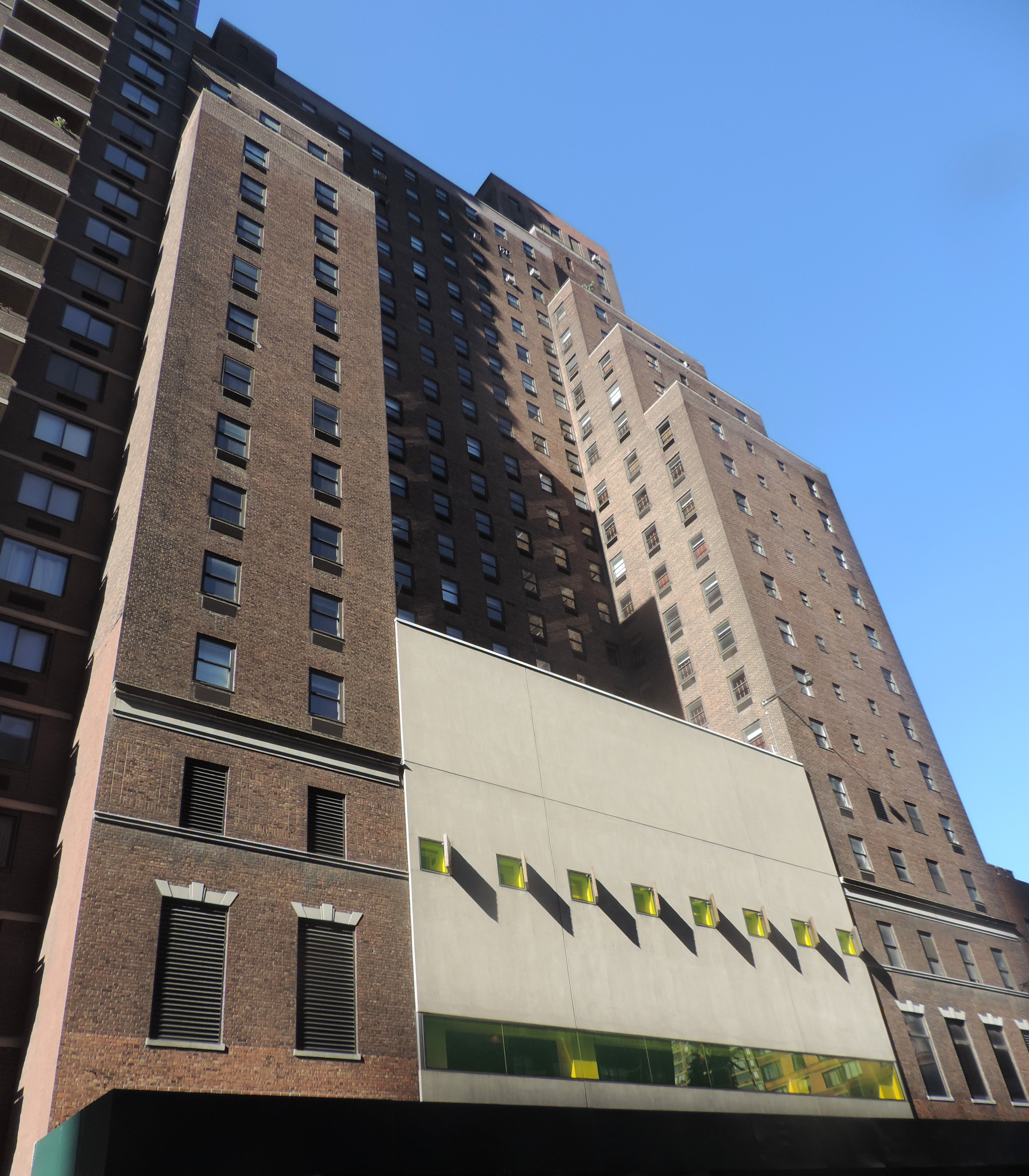 Looking west at Hudson Hotel Morgan 356 W 58th St on a sunny morning.